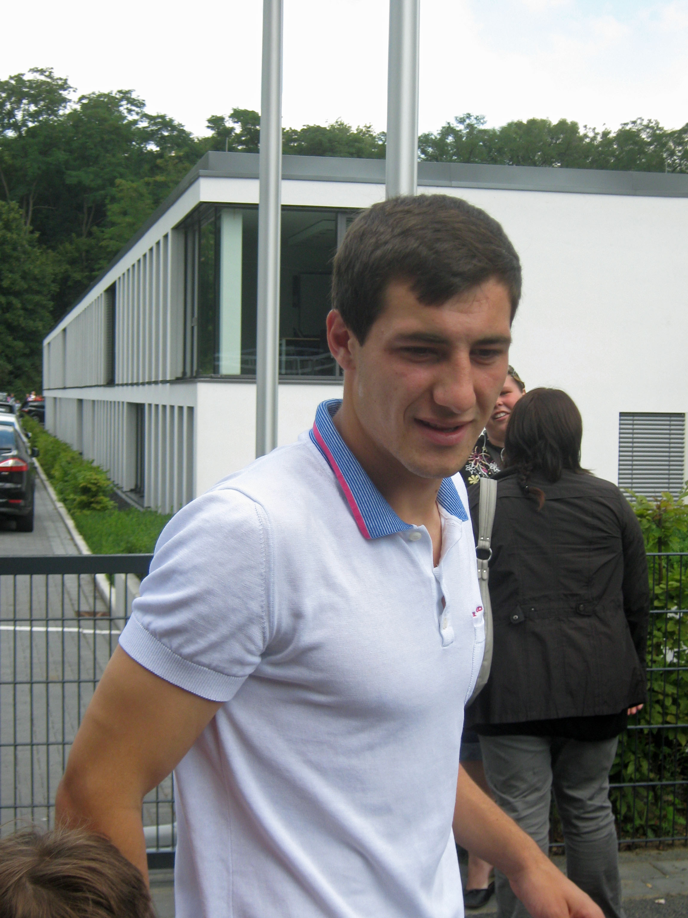 Mato Jajalo